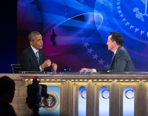 President Barack Obama tapes an interview for "The Colbert Report with Stephen Colbert" at Lisner Auditorium at George Washington University in Washington, D.C., December 8, 2014.